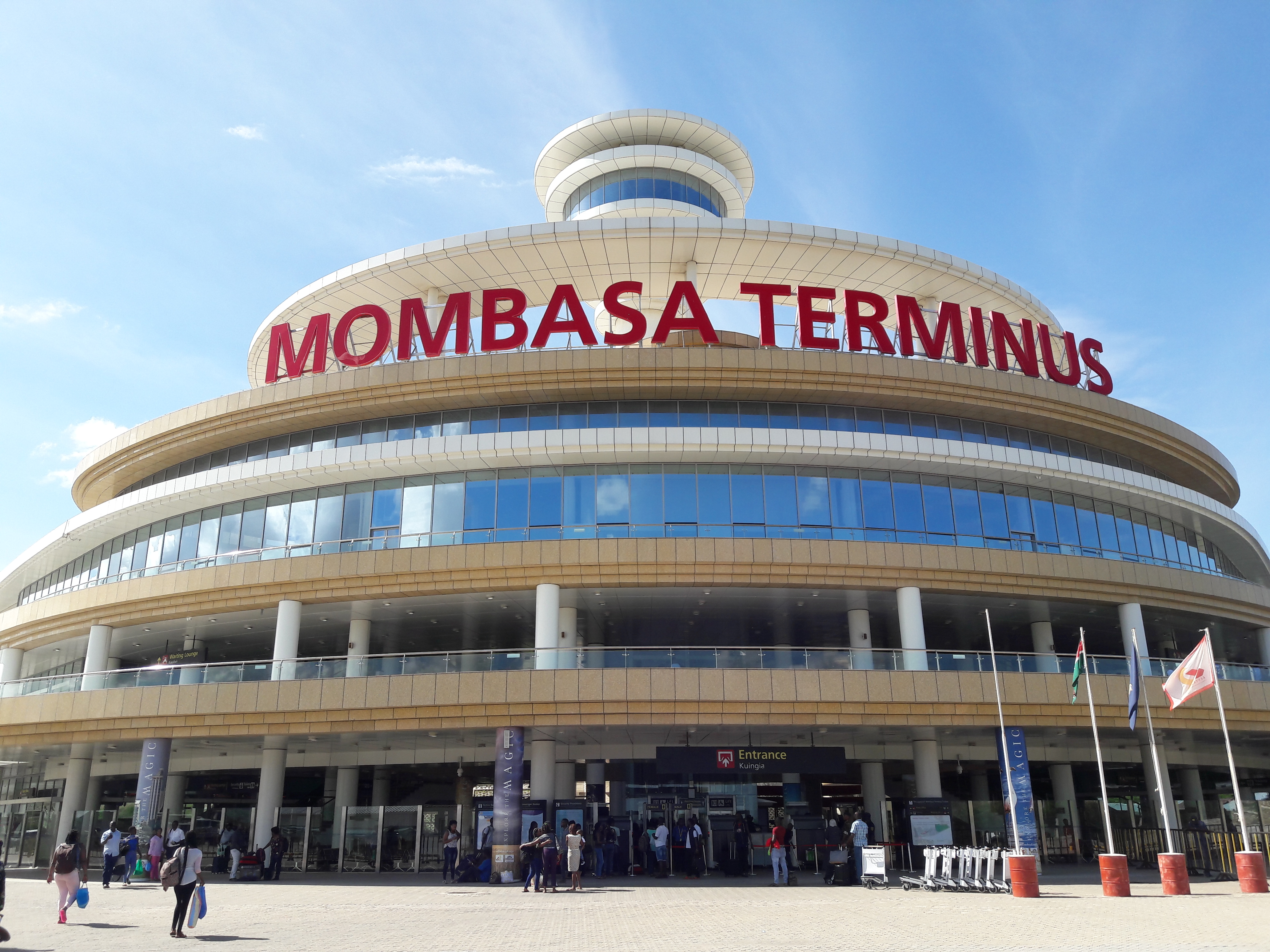 Mombasa Terminus is a railway station on the Mombasa–Nairobi Standard Gauge Railway (also known as 'Madaraka Express') located in Mombasa, Kenya.